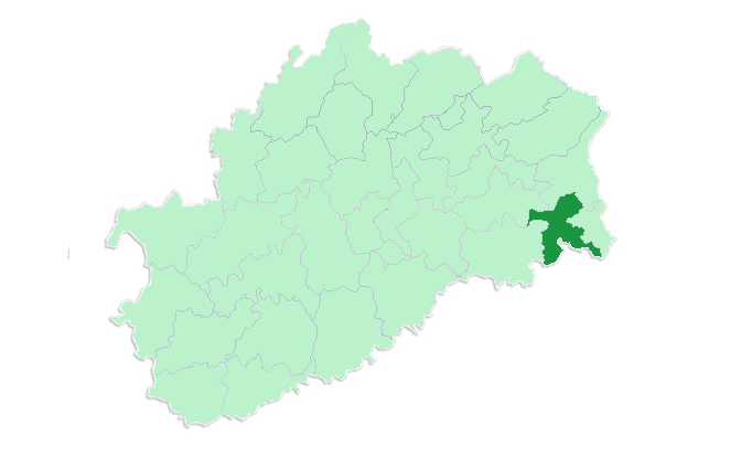 Canton of Héricourt Ouest